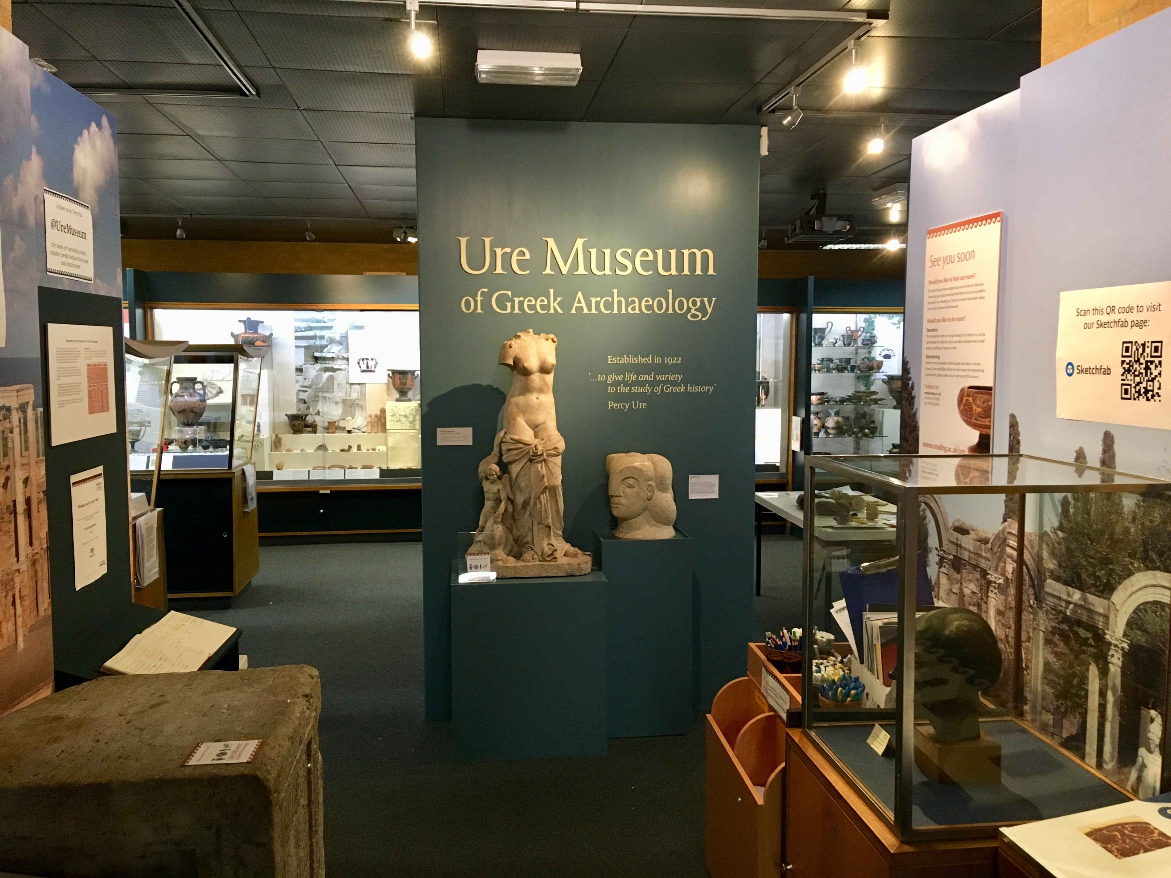 Photograph of the entrance of the Ure Museum of Greek Archaeology